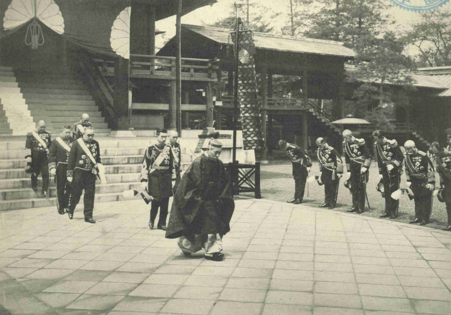 Hirohito visit to the Yasukuni Shrine in 1934